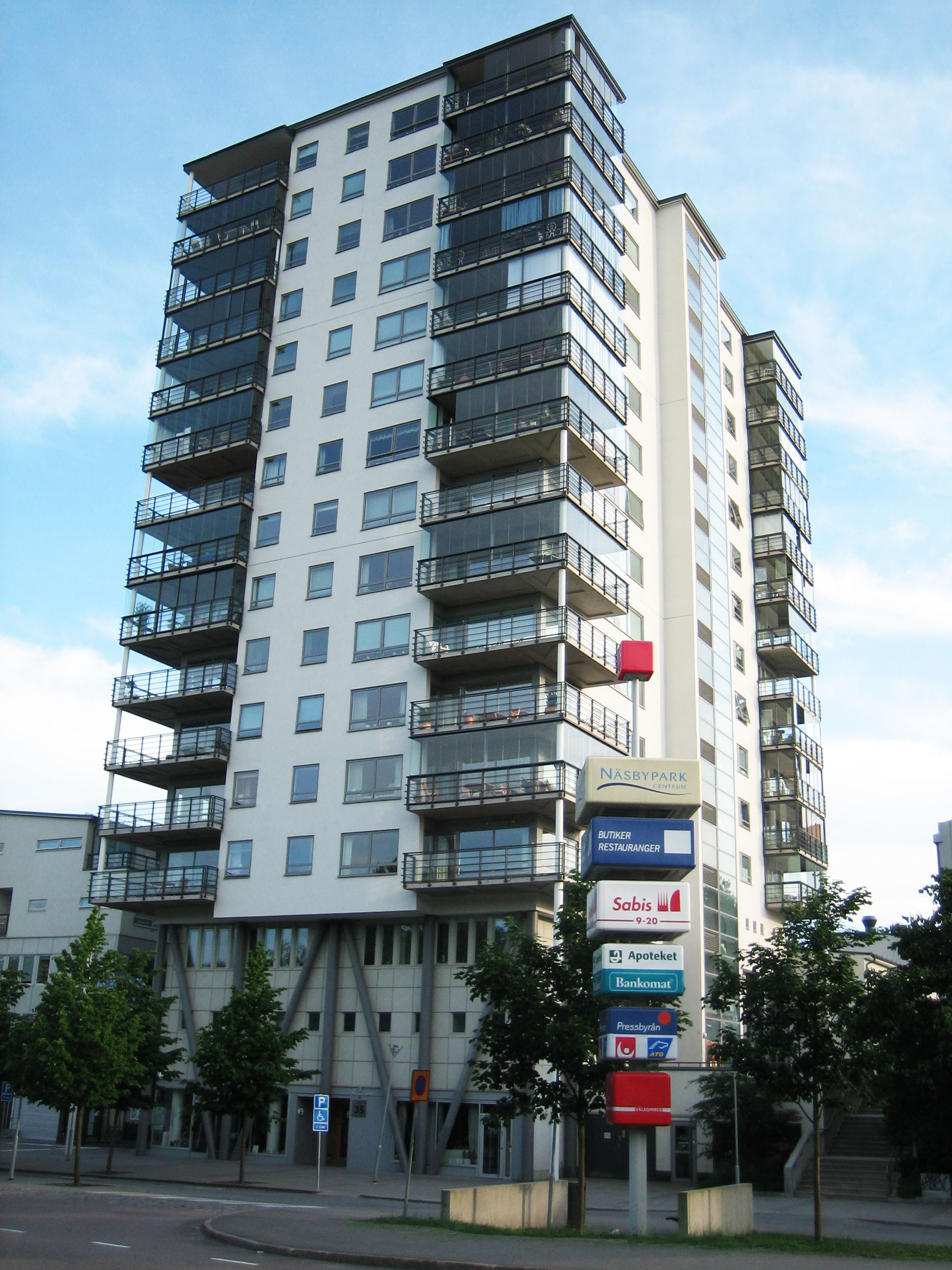 Näsbypark centrum in Täby outside Stockholm, Sweden 2009. Photo by the uploader.